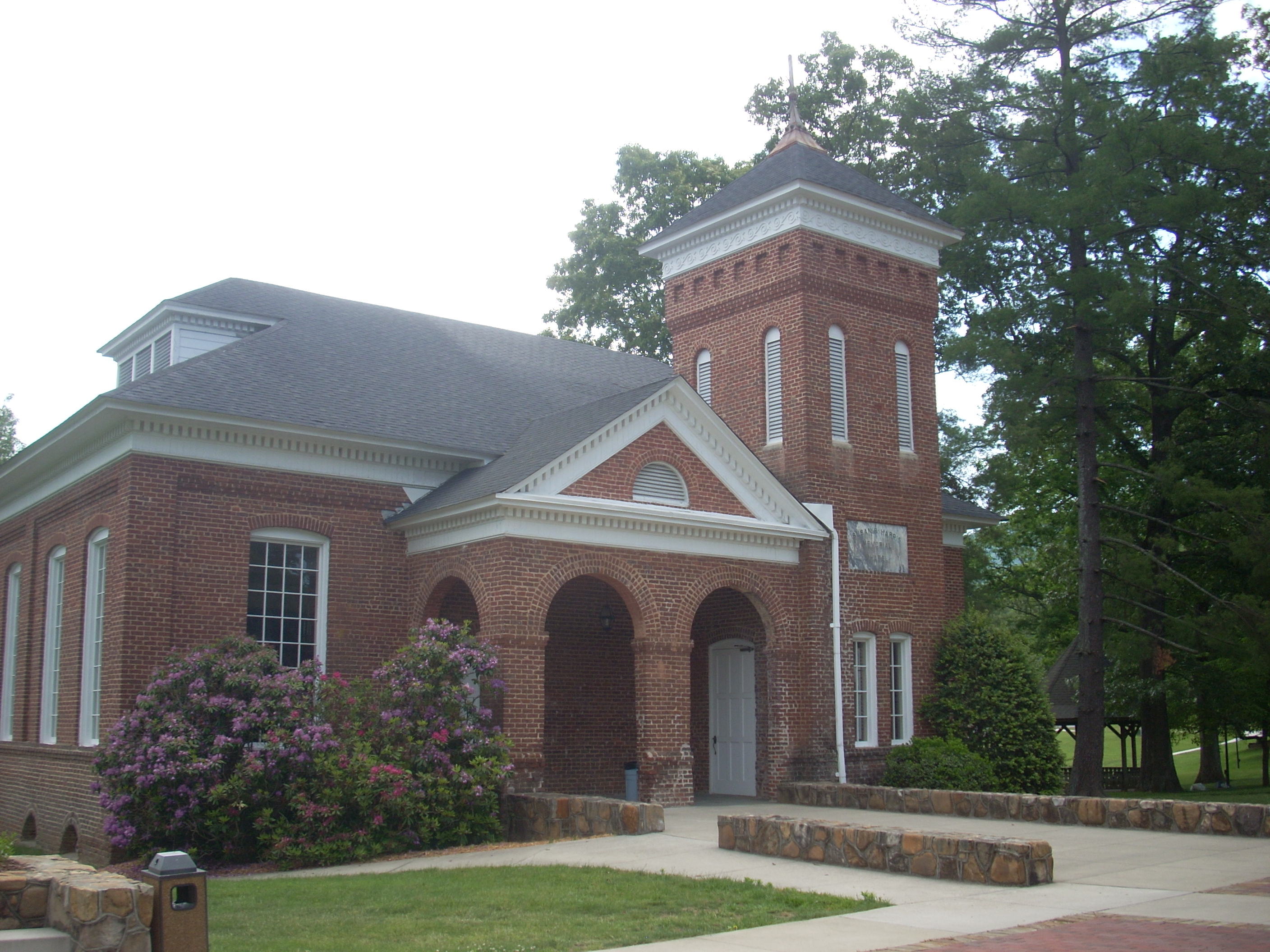 Susan B. Harris Chapel, Young Harris College, Young Harris (Towns County, Georgia) Built 1892, Oldest building on campus This work has been released into the public domain by its author, KudzuVine. This applies worldwide. In some countries this may not be legally possible; if so: KudzuVine grants anyone the right to use this work for any purpose, without any conditions, unless such conditions are required by law. Object location34° 55′ 57″ N, 83° 50′ 48″ W